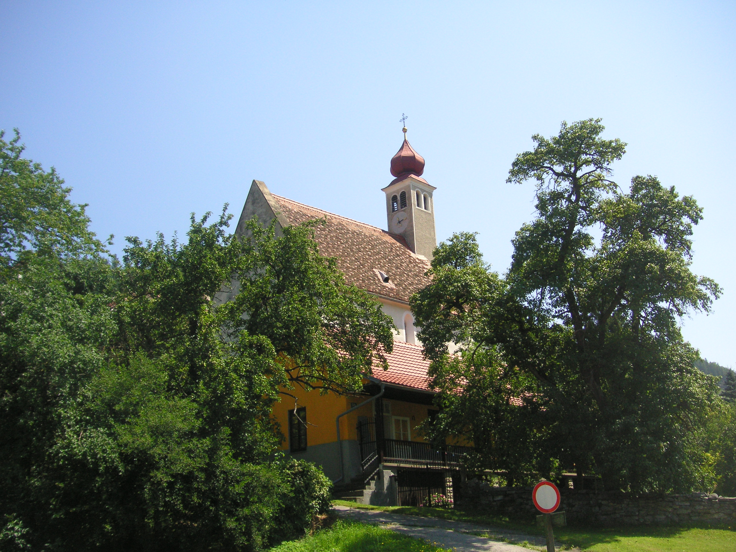 The church St. Michael in Übelbach, Styria, Austria